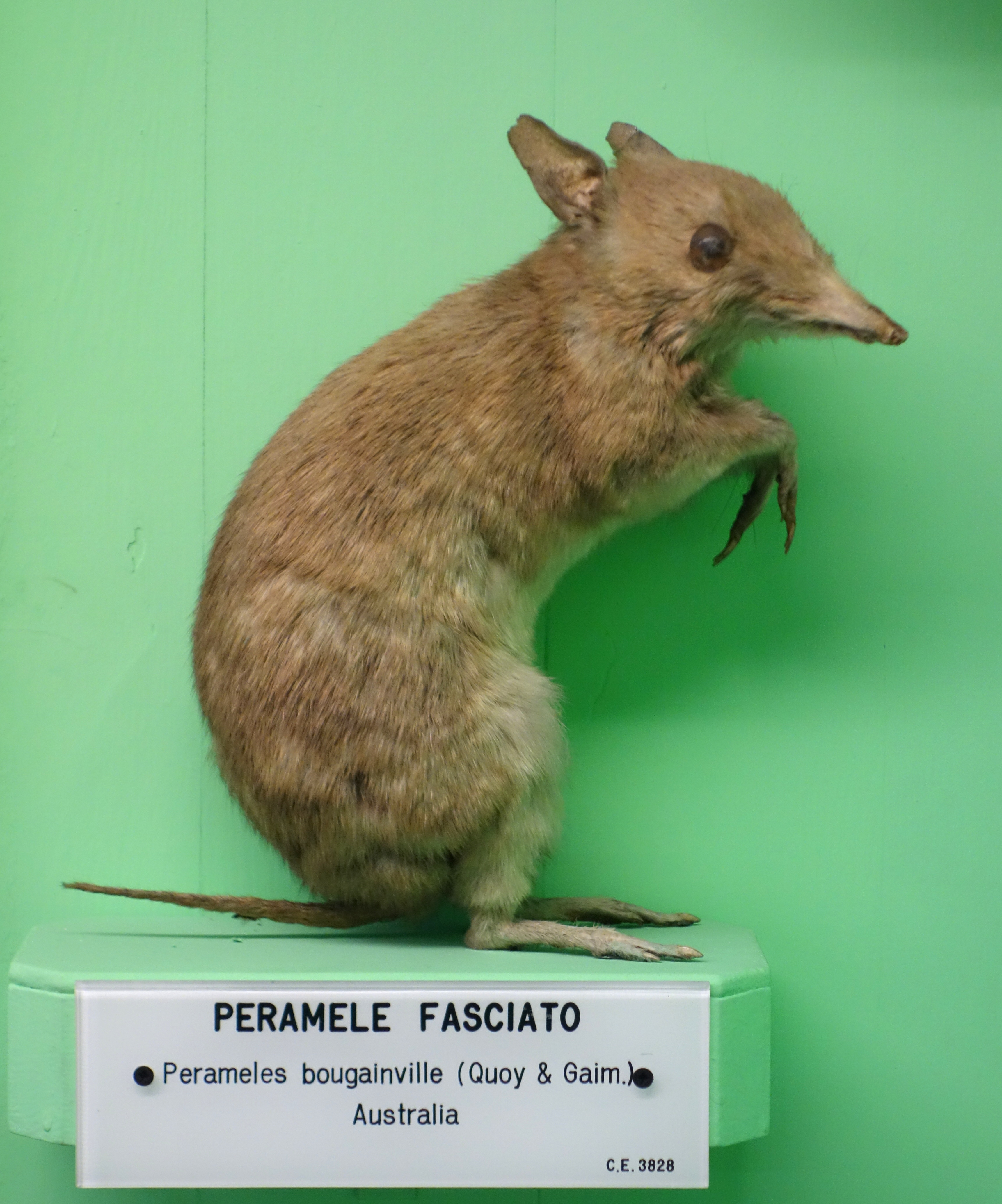 Exhibit in the Museo Civico di Storia Naturale di Genova, Via Brigata Liguria, 9, 16121, Genoa, Italy.